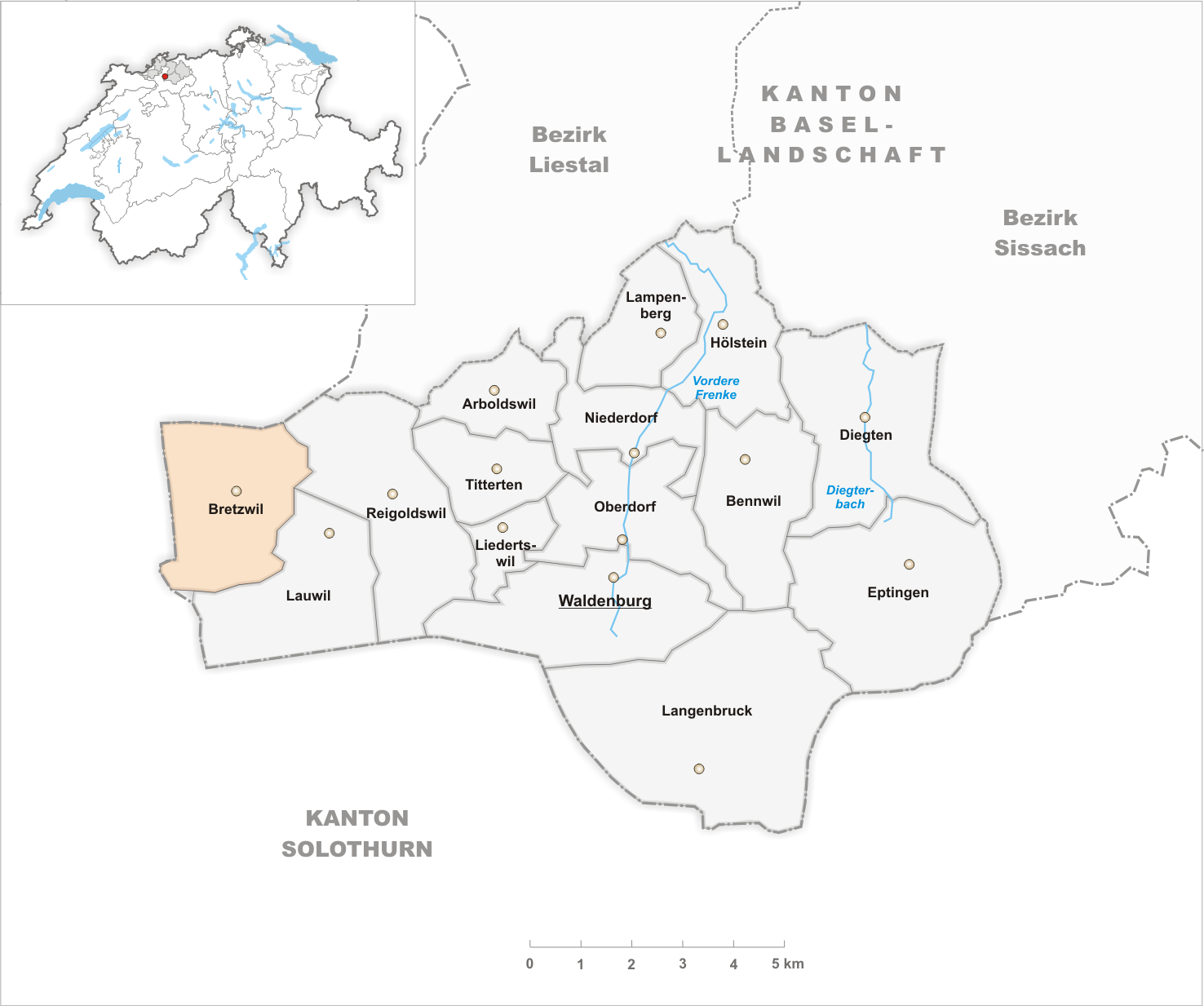 Municipality Bretzwil